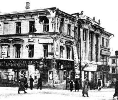 Moscow, Nikitsky Vorota Square. The House was damaged in 1917